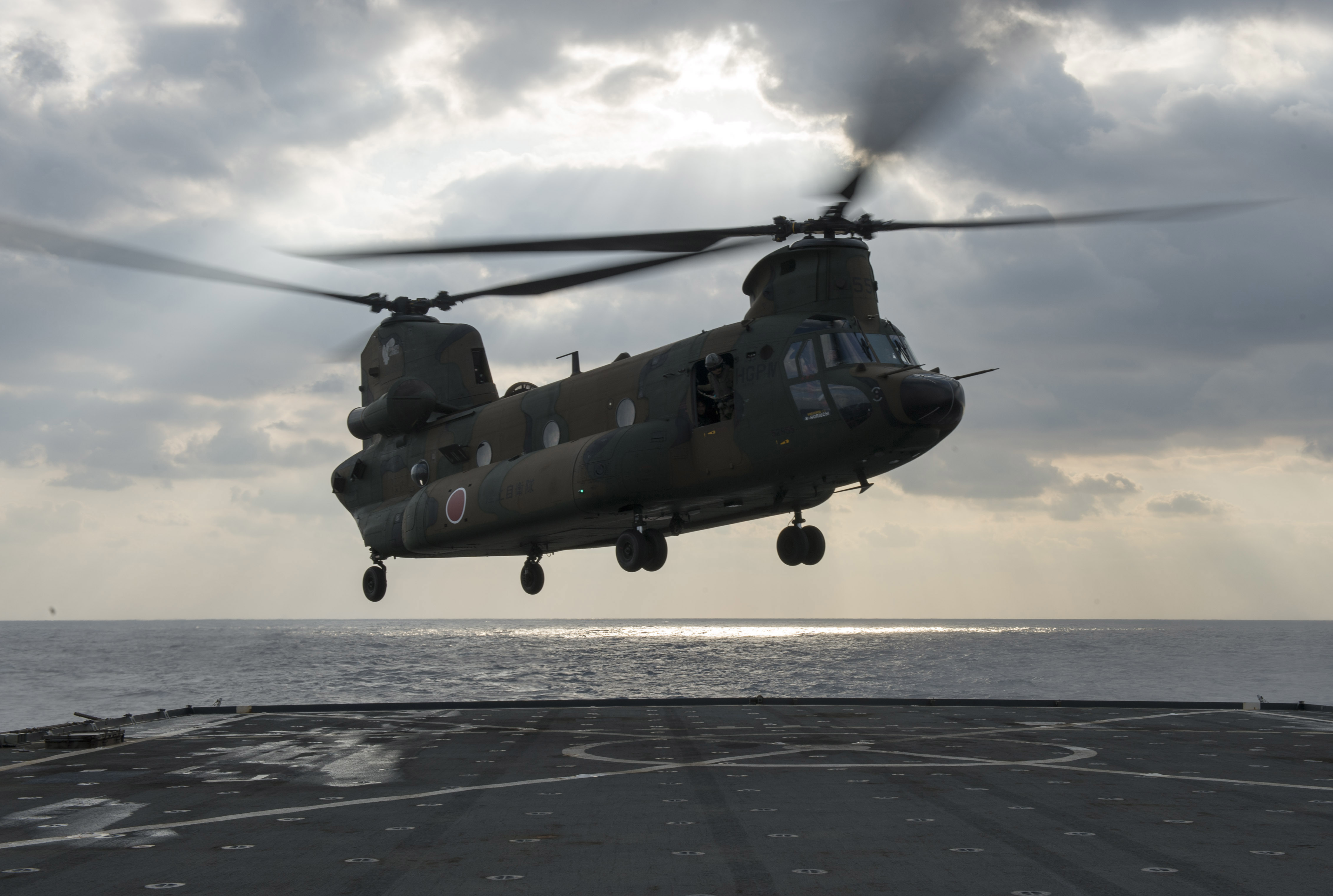 A CH-47 Chinook, assigned to the Japanese Ground Self Defense Force (JGSDF), takes off from the flight deck of the amphibious dock landing ship USS Germantown (LSD 42) during a personnel transfer for exercise Keen Sword. Exercise Keen Sword is a bilateral field training exercise held biennially since 1986. The exercise is designed to increase the interoperability of U.S. Forces and the Japanese Self Defense Forces (JSDF) to effectively and mutually provide for the defense of Japan, or respond to a regional crisis or contingency situation in the Asia-Pacific region. Germantown is part of the Peleliu Amphibious Ready Group (#PELARG14), commanded by Capt. Heidi Agle, and is conducting joint forces exercises in the U.S. 7th Fleet area of responsibility. (U.S. Navy Photo by Mass Communication Specialist 2nd Class Amanda R. Gray/Released)